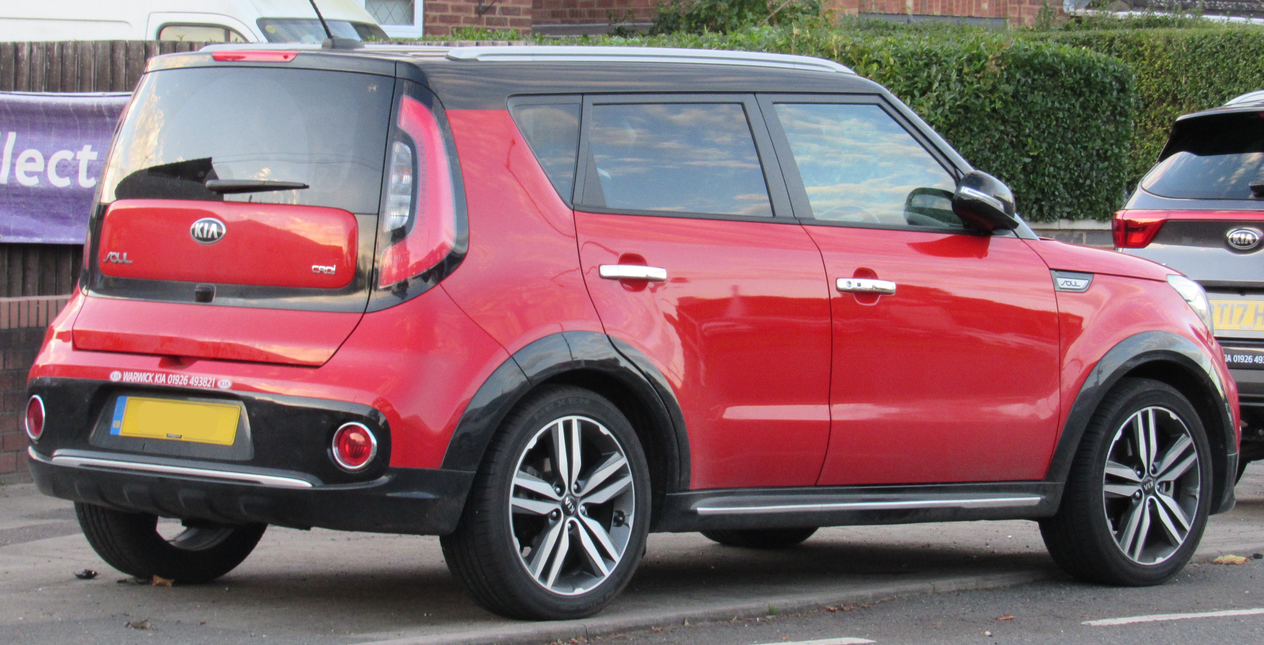 2017 Kia Soul 3 CRDi S-A 1.6 Rear Taken in Warwick